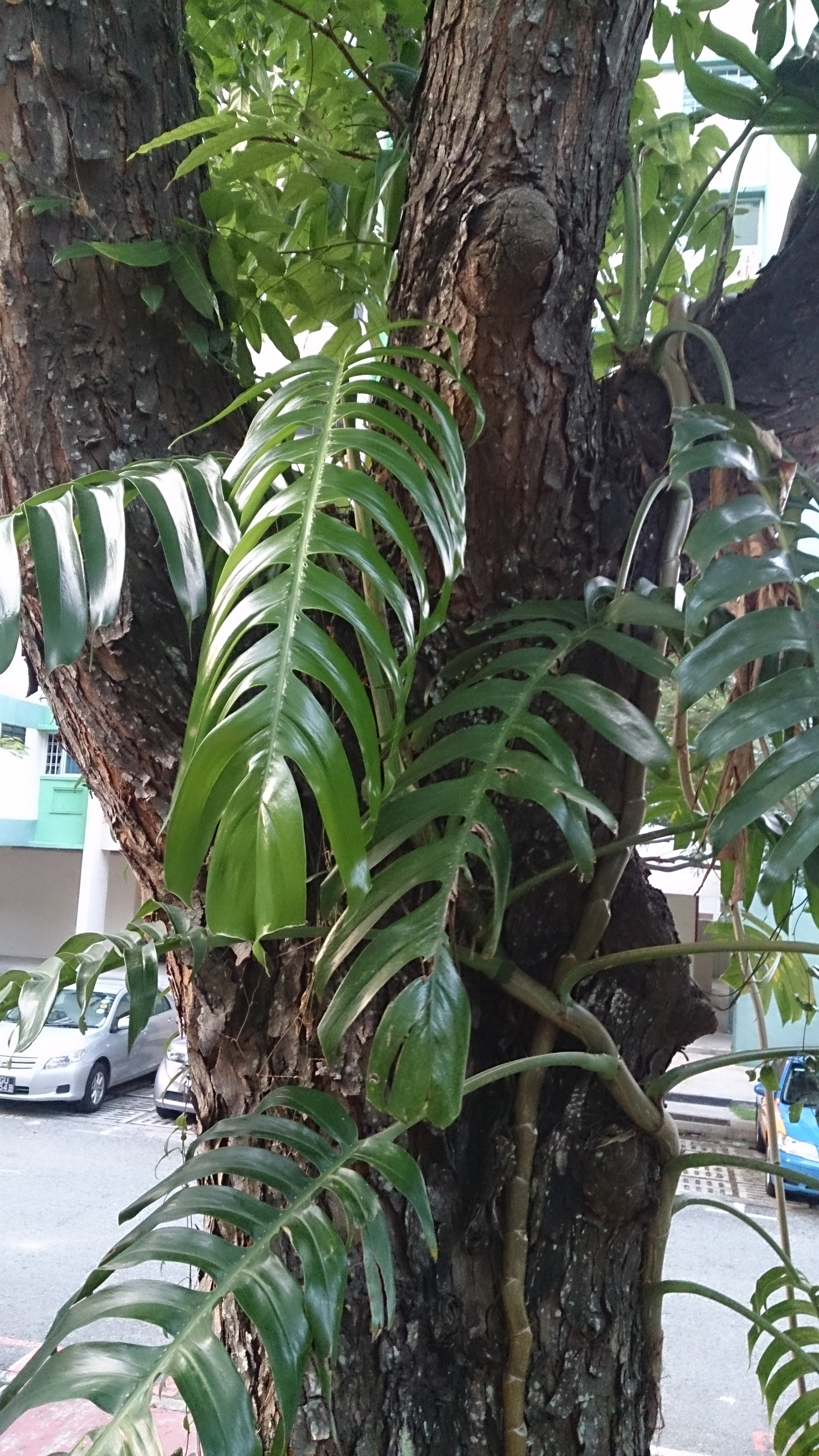 Epipremnum pinnatum. Common name: Dragon-Tail Plant. 麒麟叶 (Chinese)